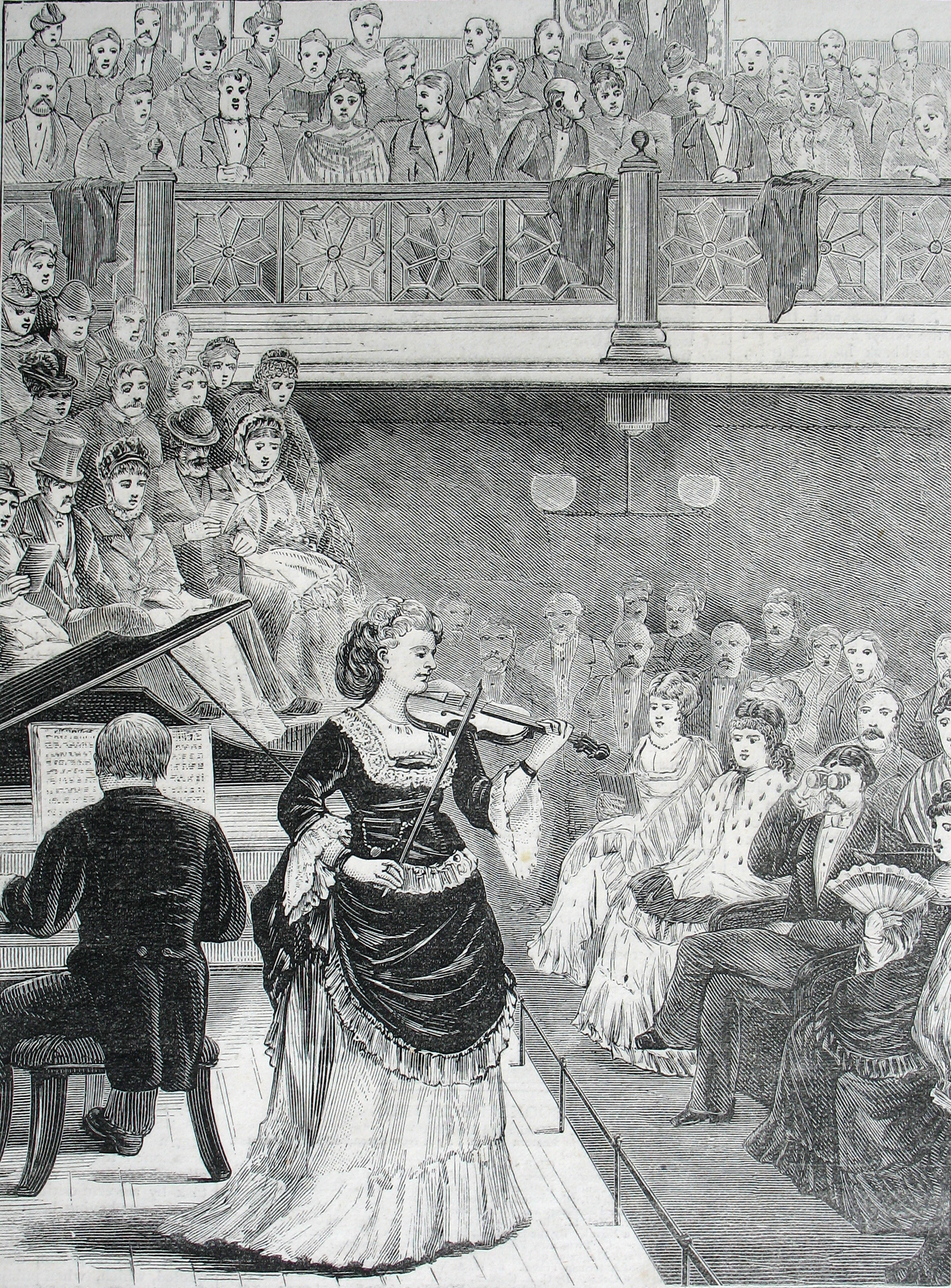 Wilma Norman-Neruda the violinist